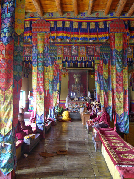 Diskit gompa, Ladakh, India